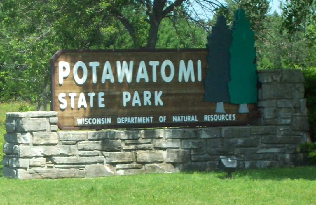 The sign for at Potawatomi State Park near Sturgeon Bay, Wisconsin, USA.